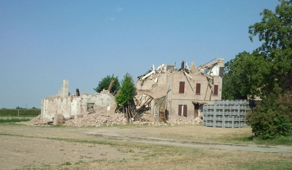 Effects of 2012 northern-italy earthquakes on a rural building